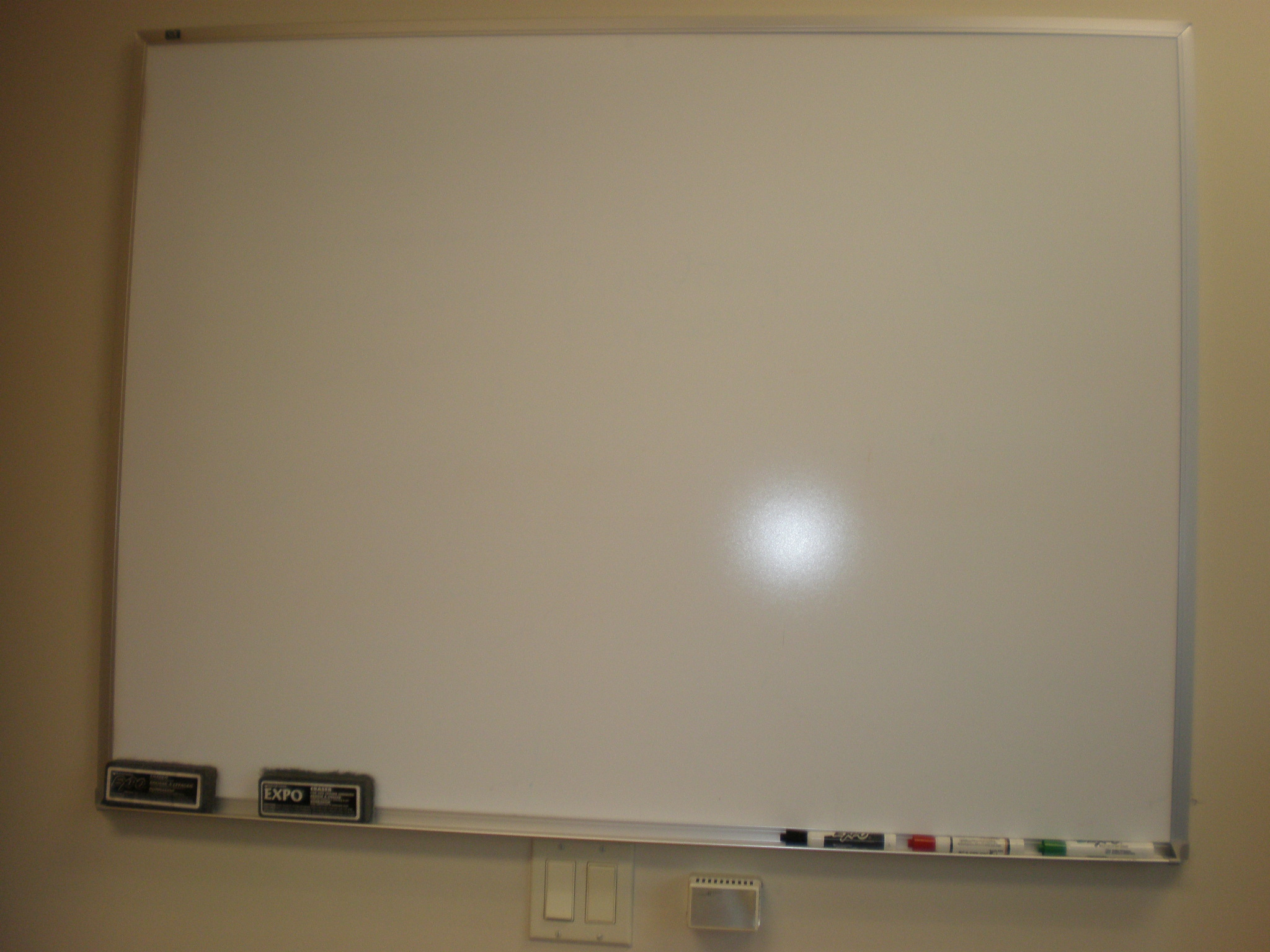 A blank whiteboard